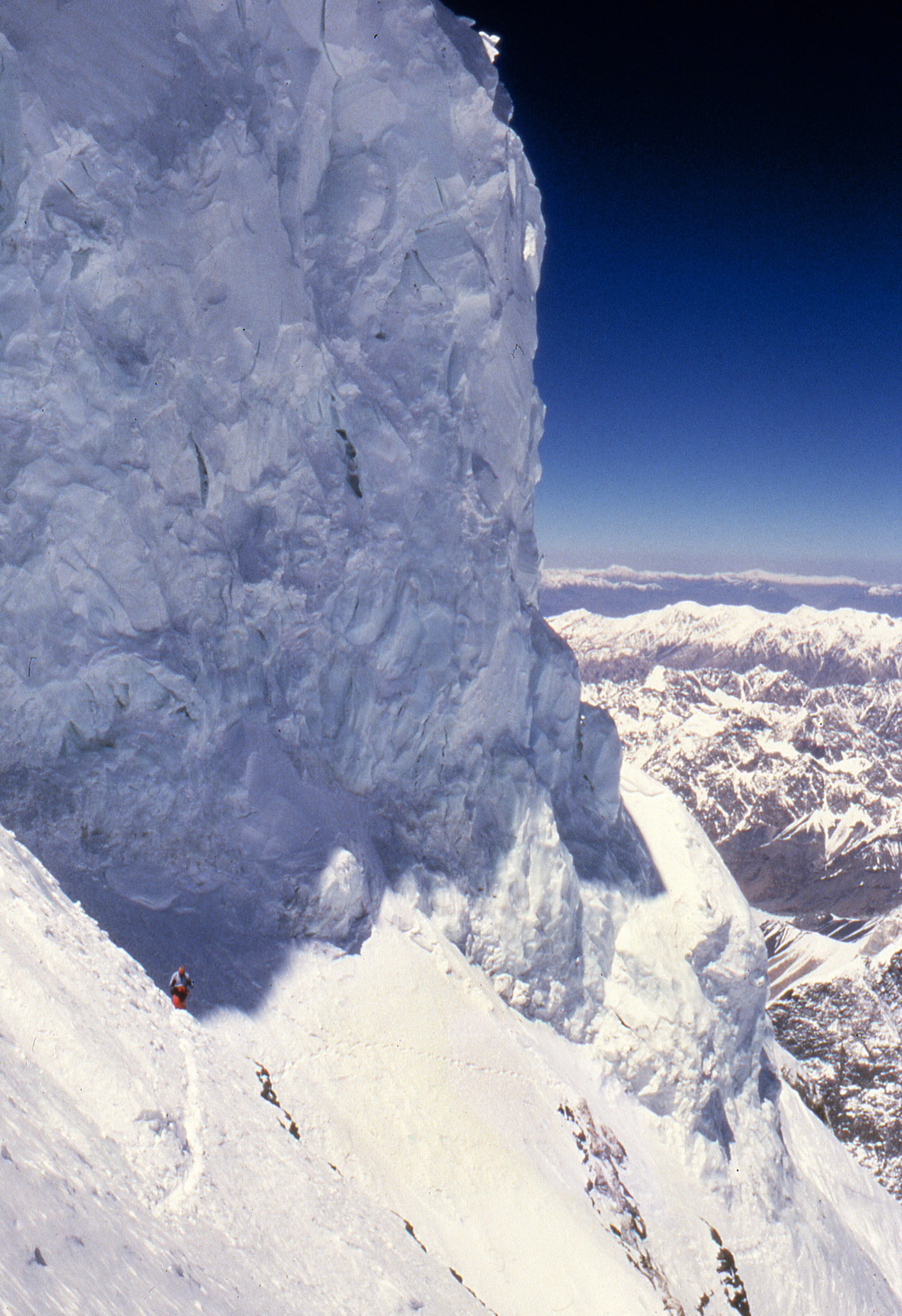 K2 above the Bottleneck (8'200m)